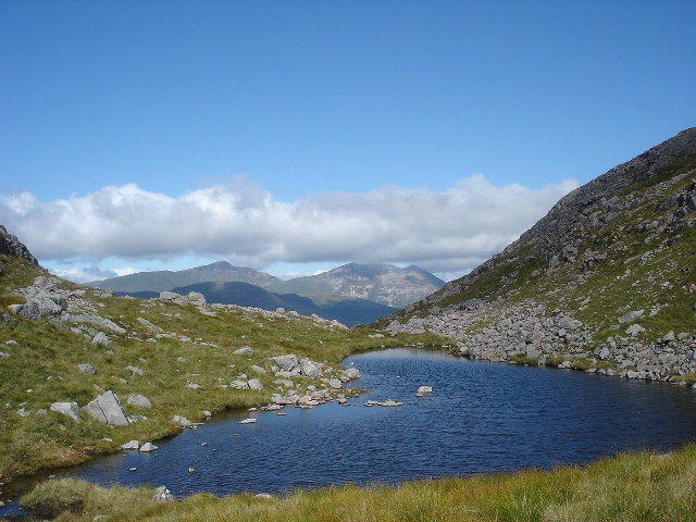 lochan on Beinn Sgulaird. No name to this lochan between Beinn Sgulaird and Stob Gaibhre. Beinn a Bheithir (Glencoe) in distance